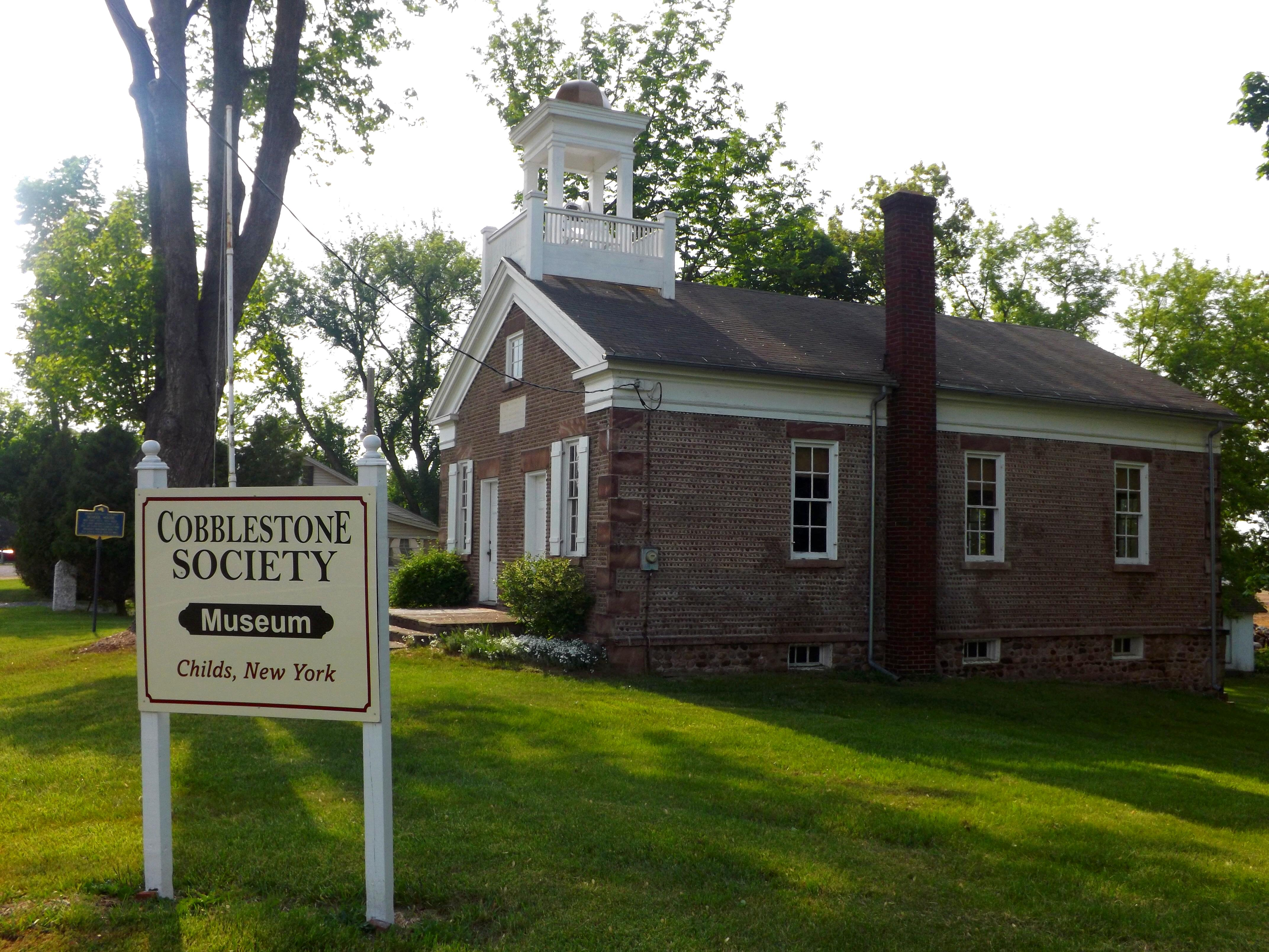 Much more than just the Cobblestone Church, the Cobblestone Society Museum actually comprises a number of unique cobblestone buildings, including the Gaines District No. 5 Schoolhouse, built in 1849.